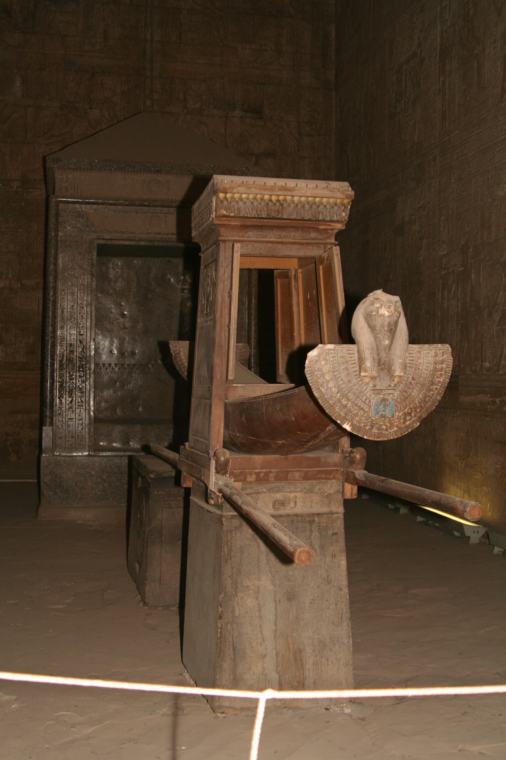 Sacred Bark of Horus in the sanctuary at the temple in Edfu, Egypt